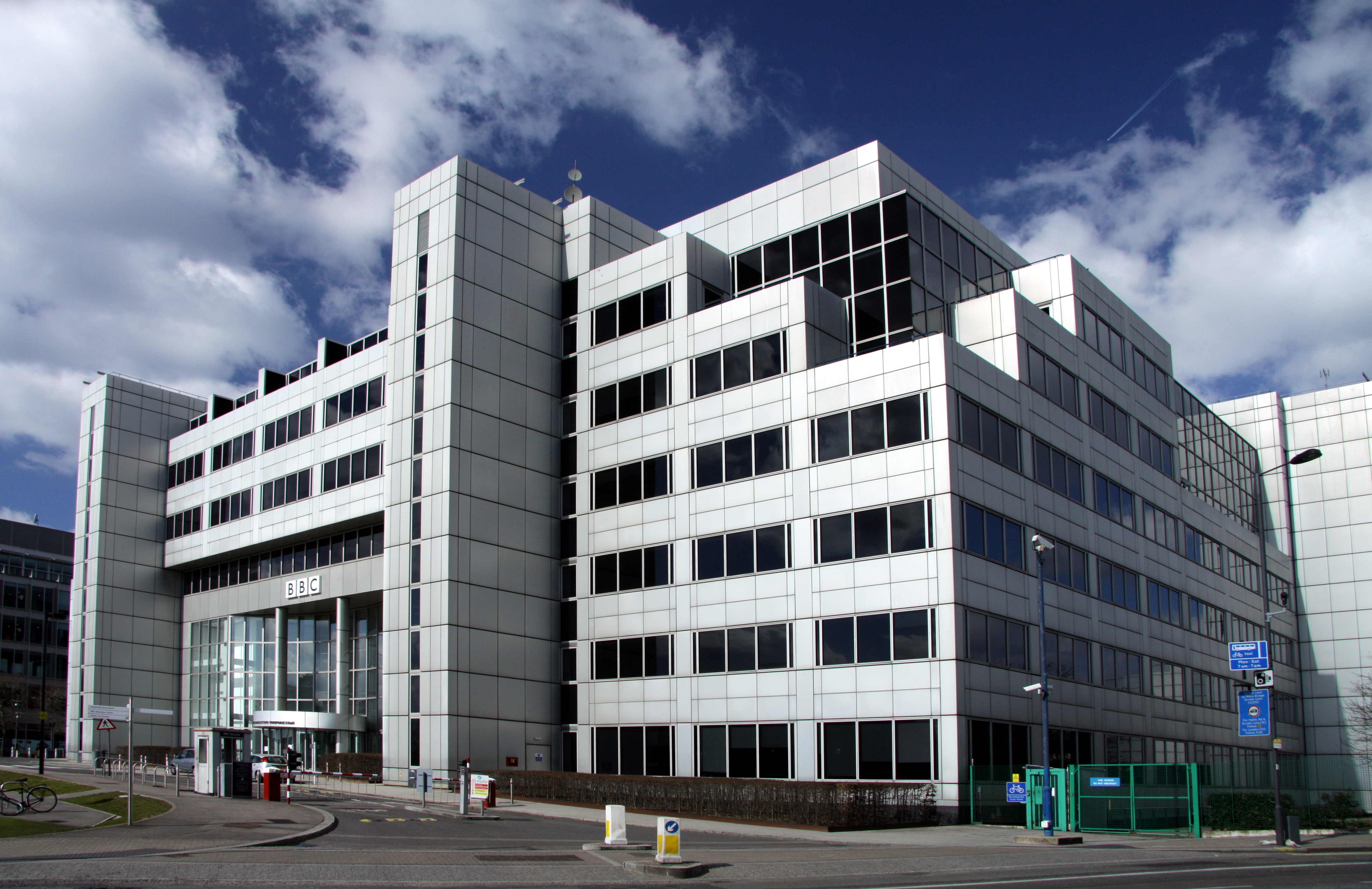 Building of BBC White City in London, England, Great Britain